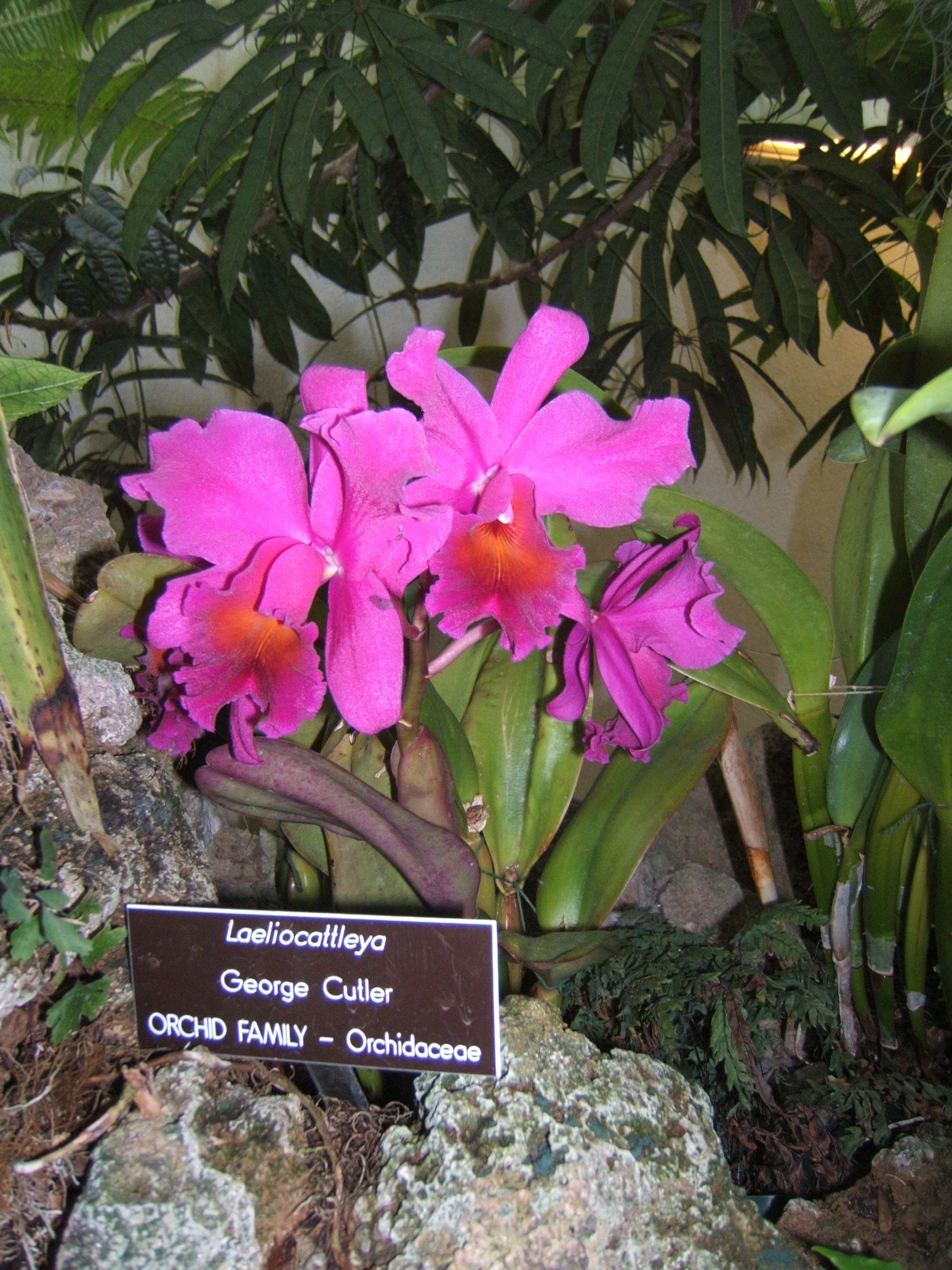 Laeliocattleya at the US Botanical Garden